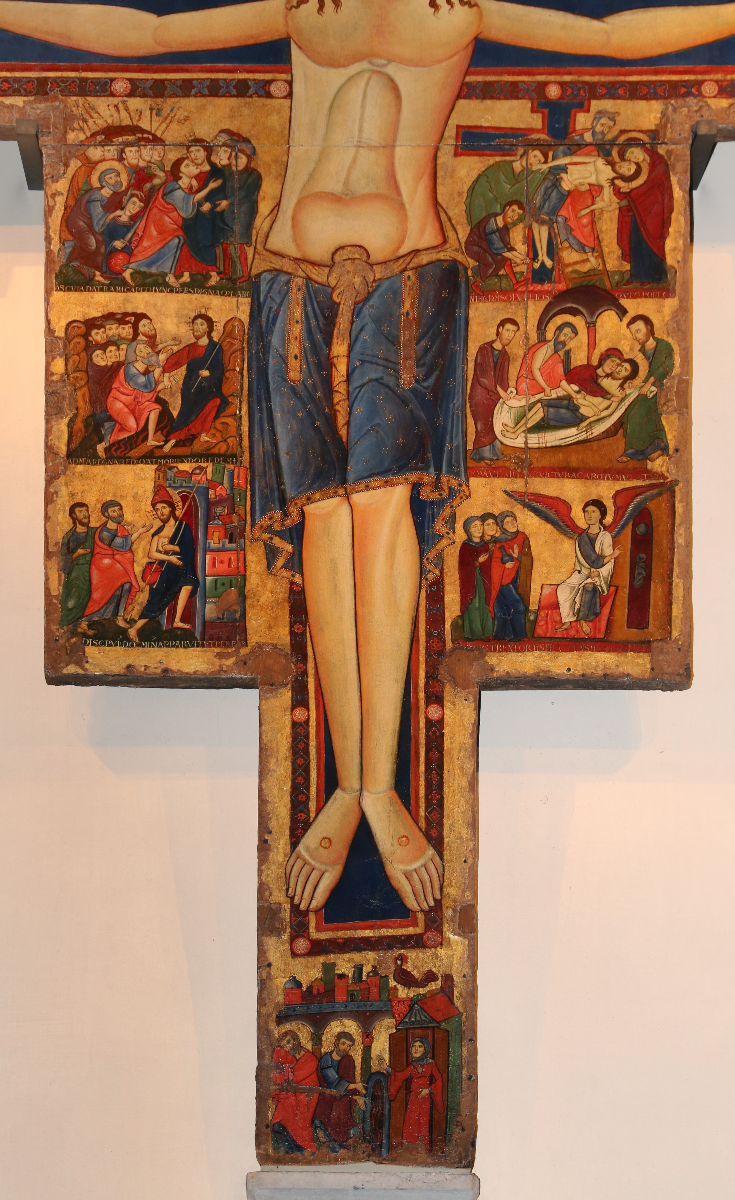 Monastero di Santa Maria a Rosano